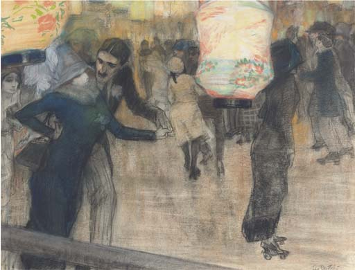 Rollerskating. Signed 'Leo.Gestel-'; black chalk and pastel on paper, 39 x 51 cm